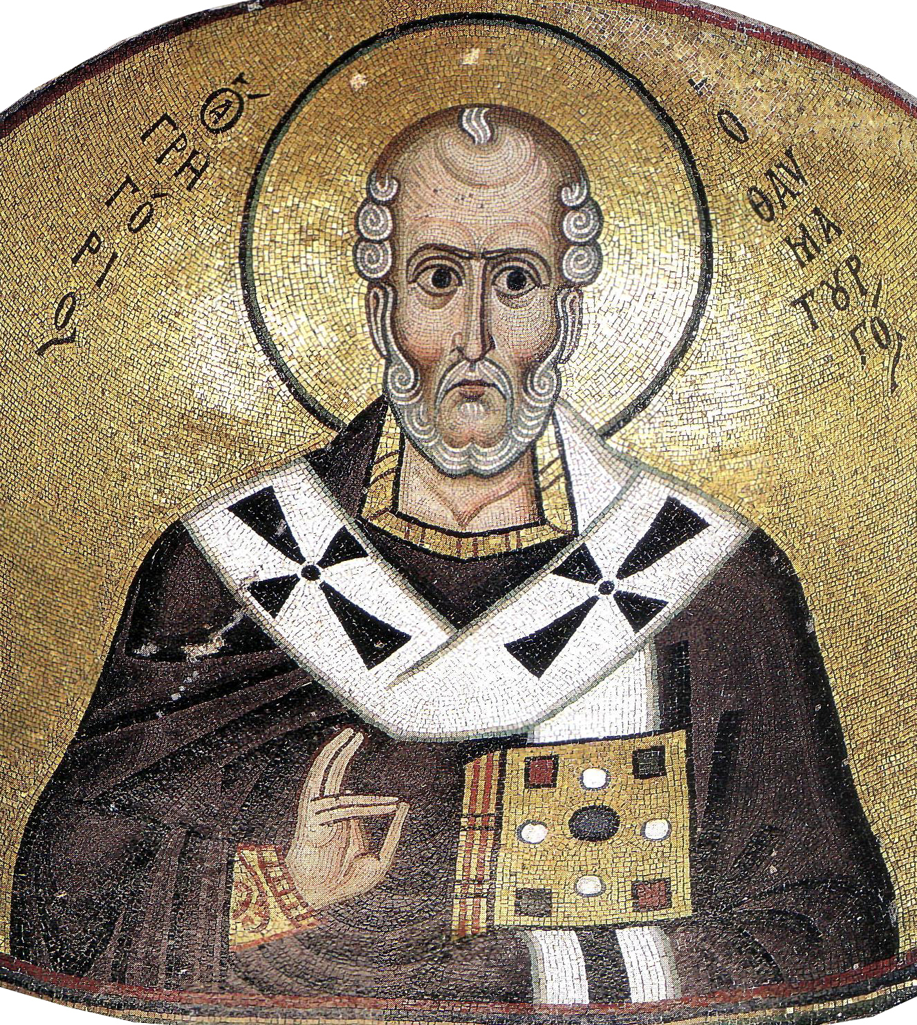 Hosios Loukas Monastery, Boeotia, Greece